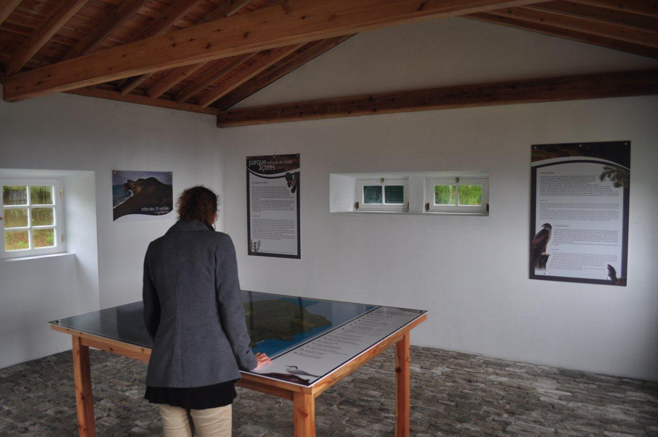 Road mender's house - Interpretation house of the Caldeira of Faial